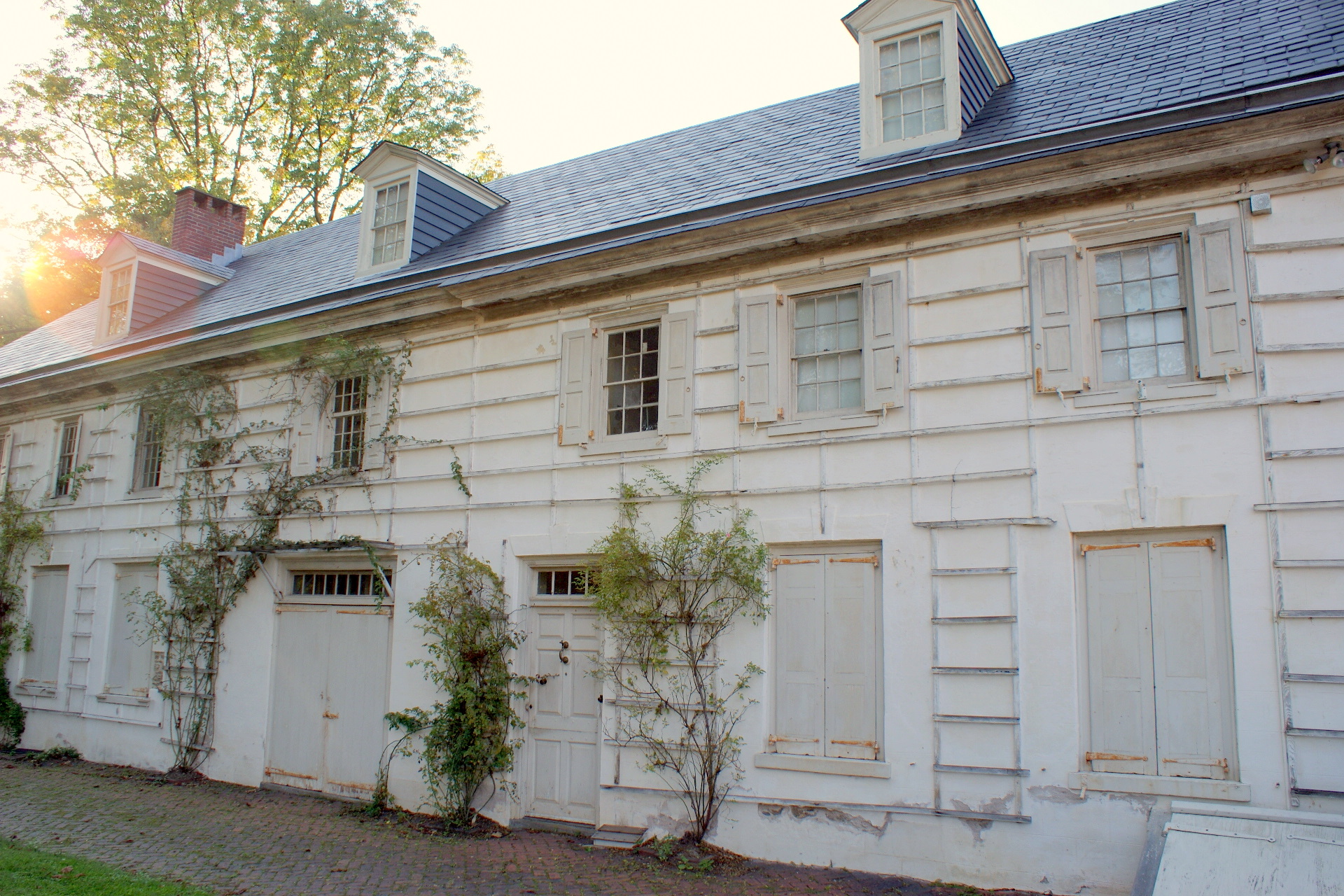 Wyck House, 6026 Germantown Ave